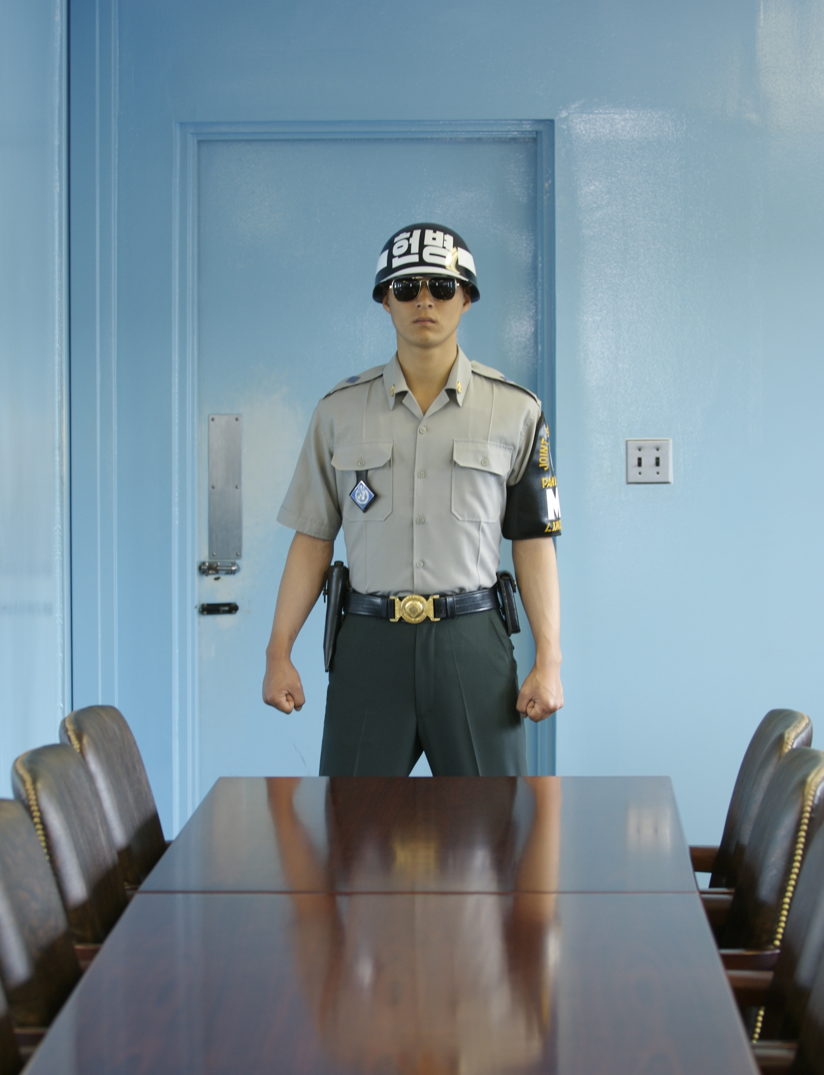 A Republic of Korea soldier and member of the United Nations Command Security Battalion stands guard inside a conference room in the Joint Security Area (JSA), Korean Demilitarized Zone. View from south to north. The guard is standing in front of a door leading to the North Korean side of the JSA. U.S. Army Korea Media Center Official DMZ Photo Archive